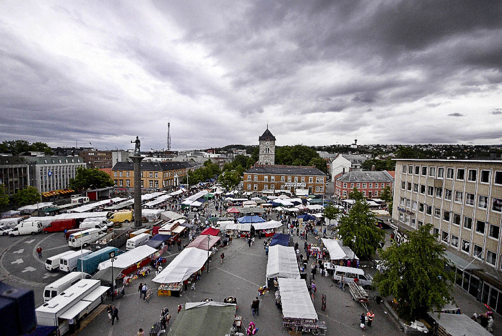 Trondheim Torg